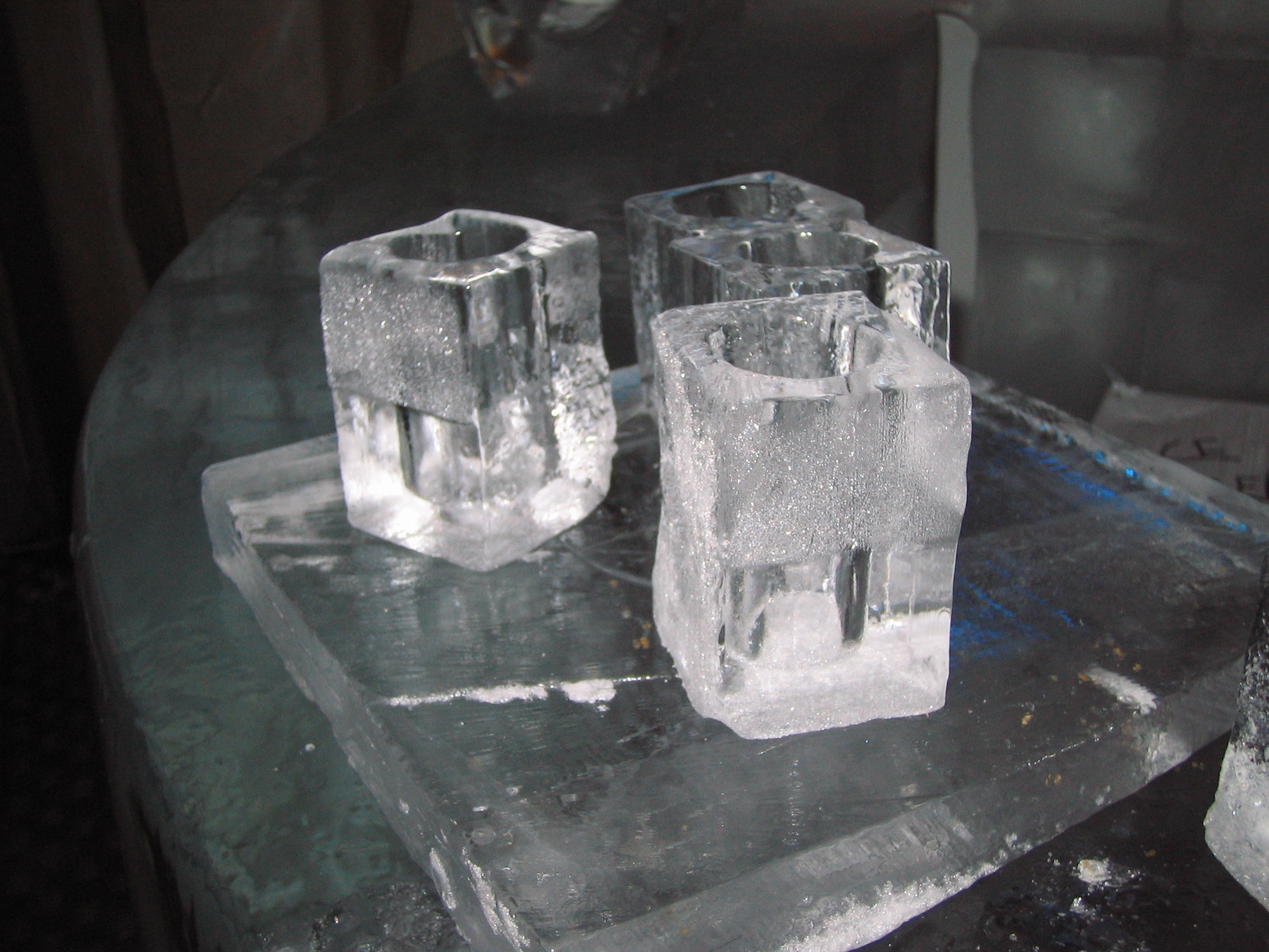 Ice glasses in the ice hotel bar in Stockholm.